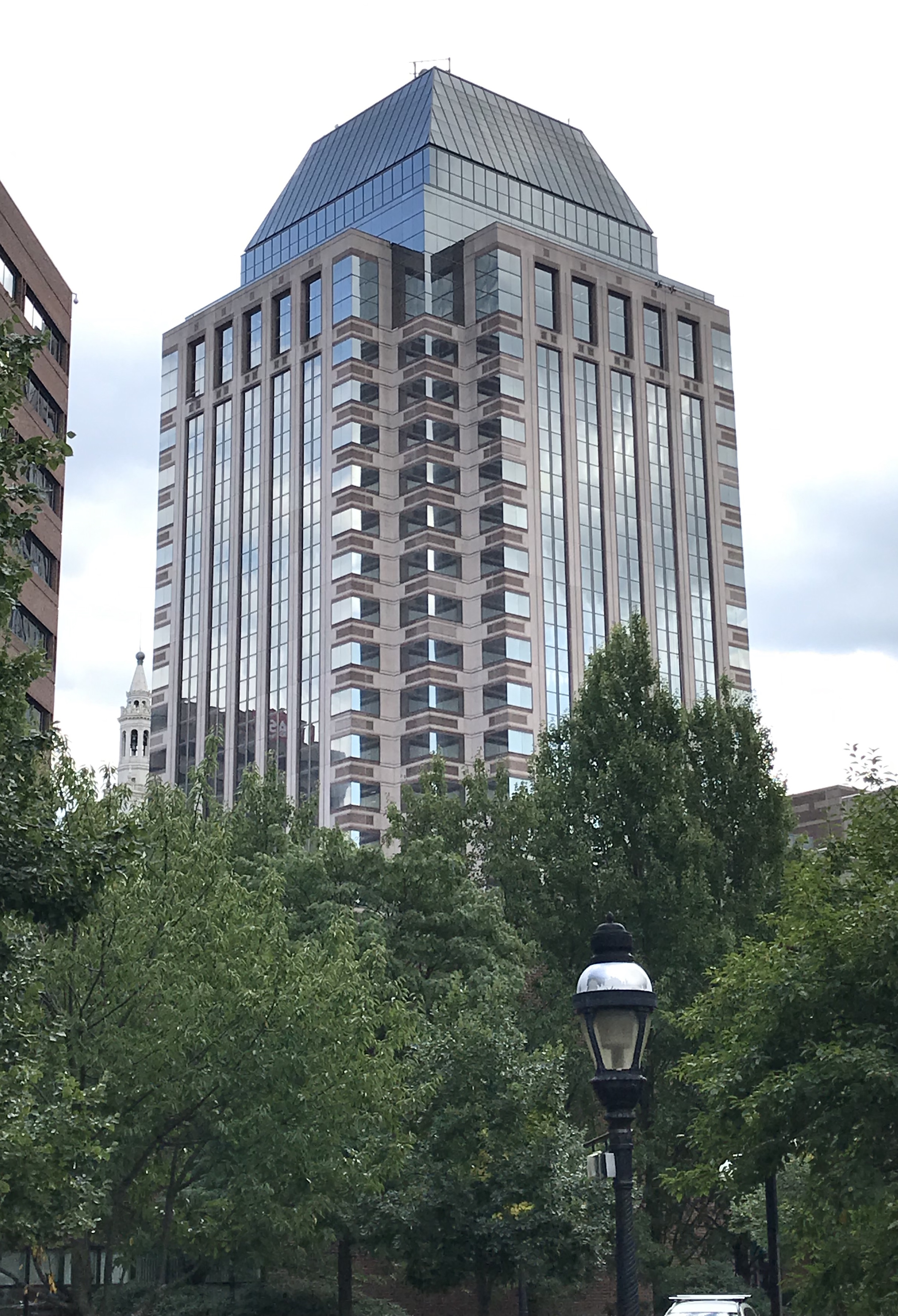 The Monarch Place tower, as seen from Steiger Park in Metro Center, Springfield, Massachusetts